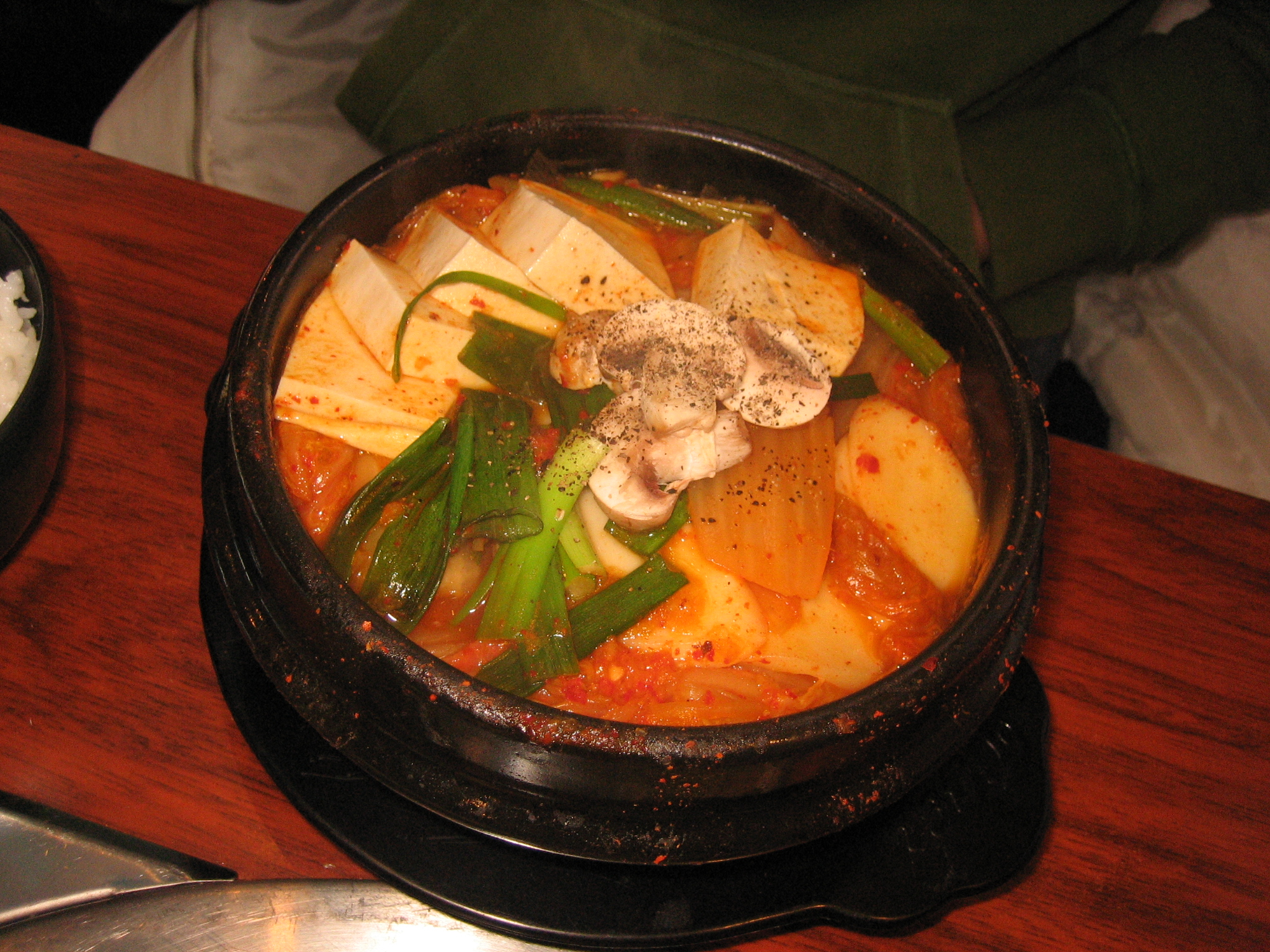 Kimchi jjagae, a Korean stew made with kimchi and vegetables.